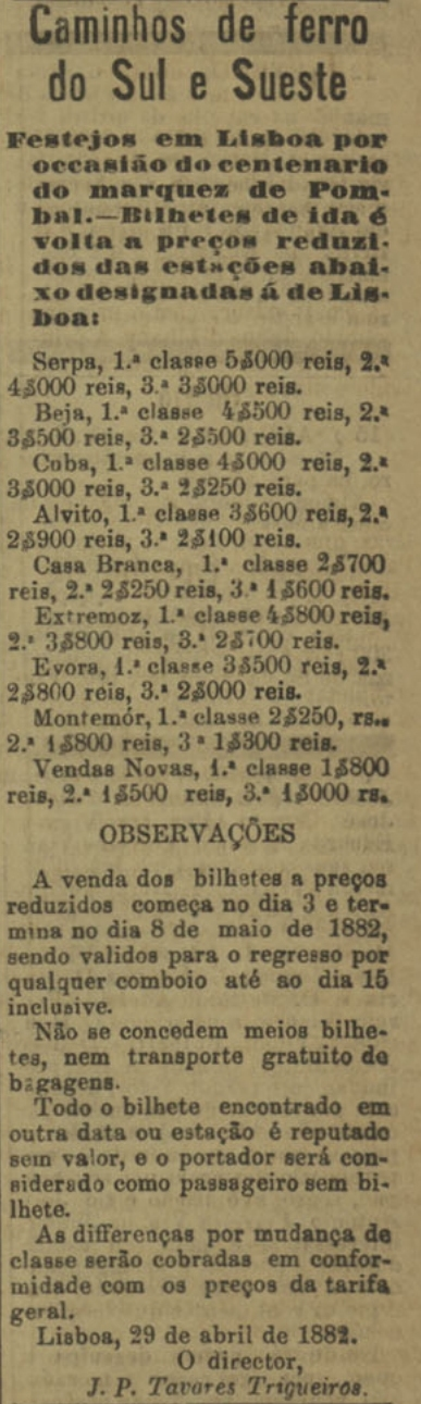 Advertisement of the portuguese public company Caminhos de Ferro do Sul e Sueste (South and Southeastern Railways) for discounts on the tickets to Lisbon, for the celebrations of the centenary of the Marquis of Pombal. This image was published on the Diario Illustrado newspaper No. 3227, of 5th May 1882, and scanned by the Biblioteca Nacional de Portugal.